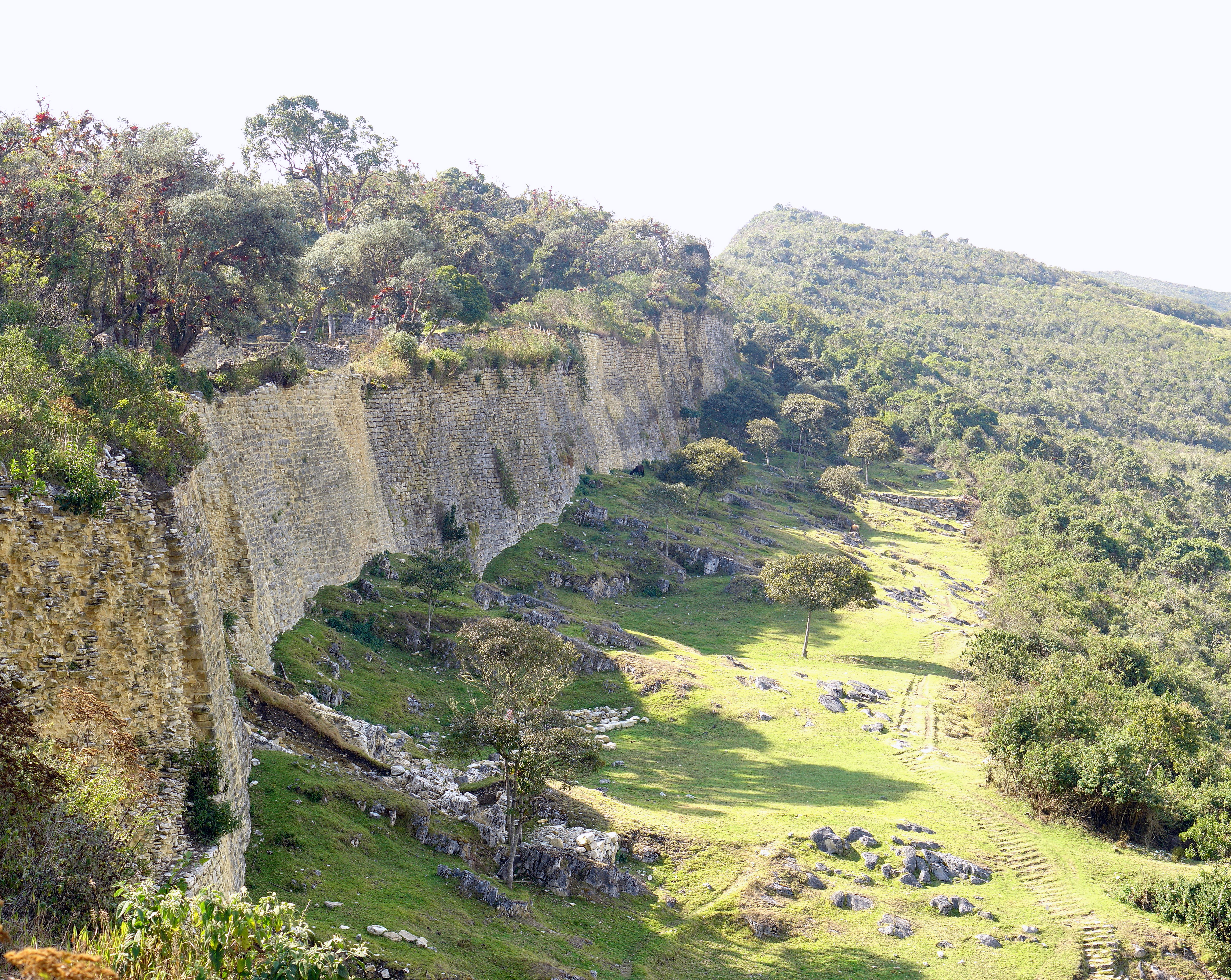 Eastern facade of the wall surrounding Kuelap forteress